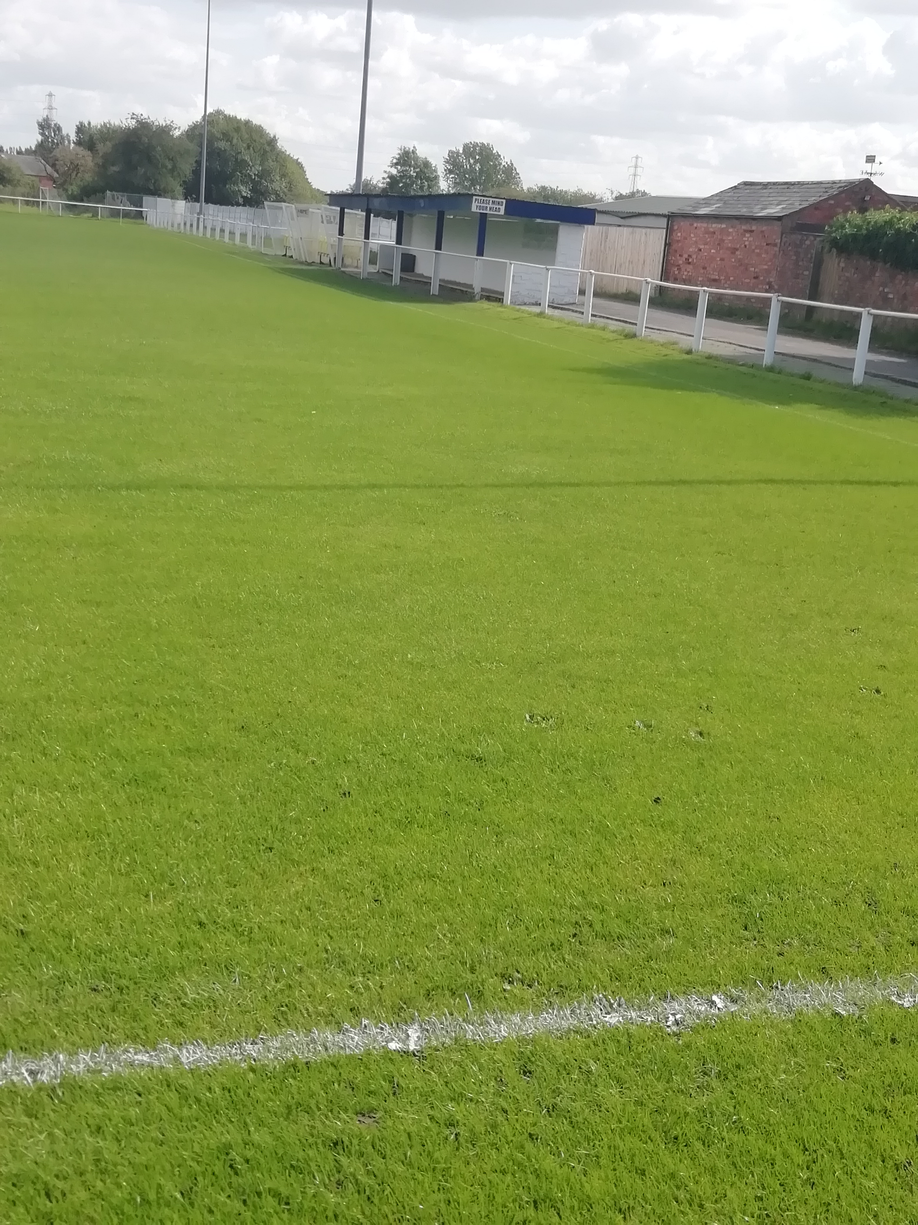 New Sirs Covered terrace